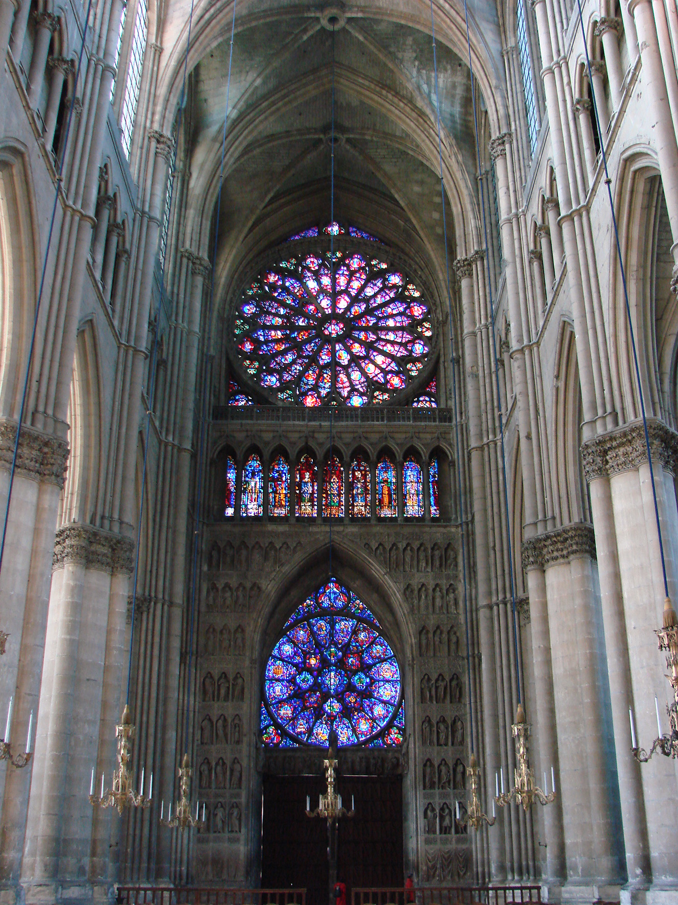 Nave of Reims Gothic cathedral, looking west. The upper rose window is in Gothic architecture Rayonnant style.